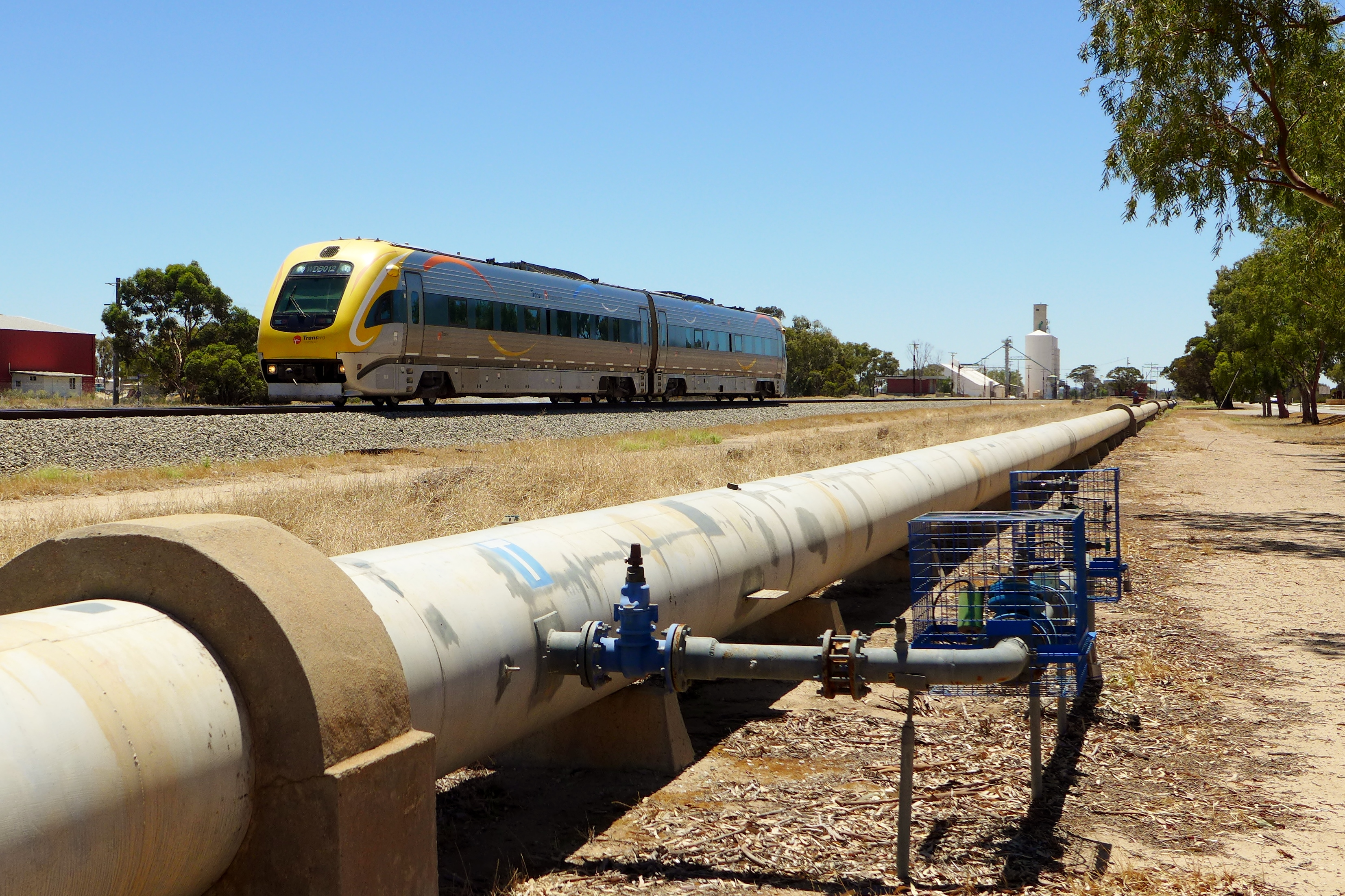 An East Perth Terminal-bound daylight The Prospector approaches the passenger station at Kellerberrin, Western Australia. In the foreground is the Goldfields Water Supply pipeline, in the background is the Kellerberrin CBH grain receival point, and just visible at the far right is the Great Eastern Highway. The railcar at the front of the train is WDB012, a driving car without buffet.